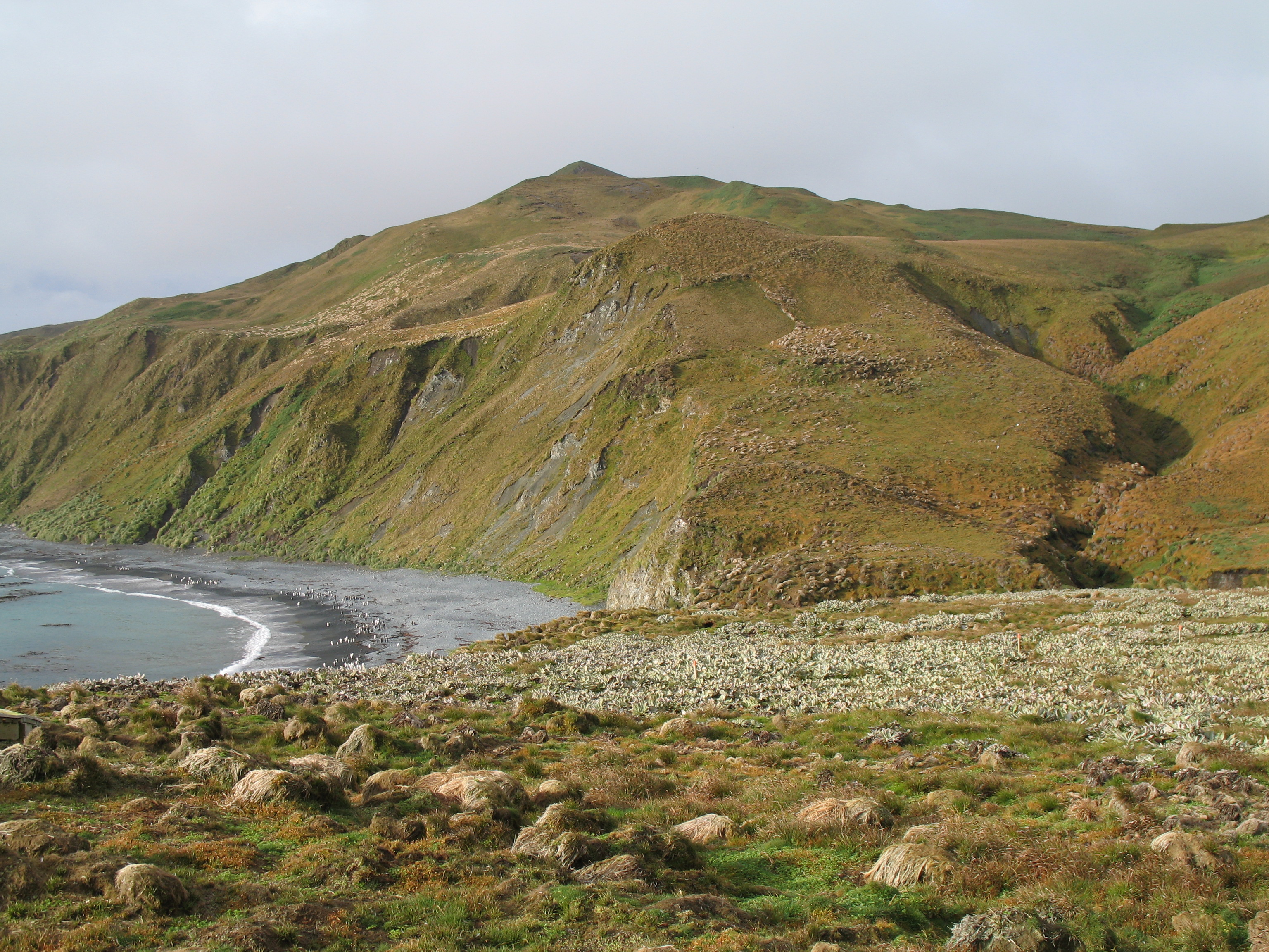 View over Macquarie Island bluffs (with a small view of King penguins on the beach below)